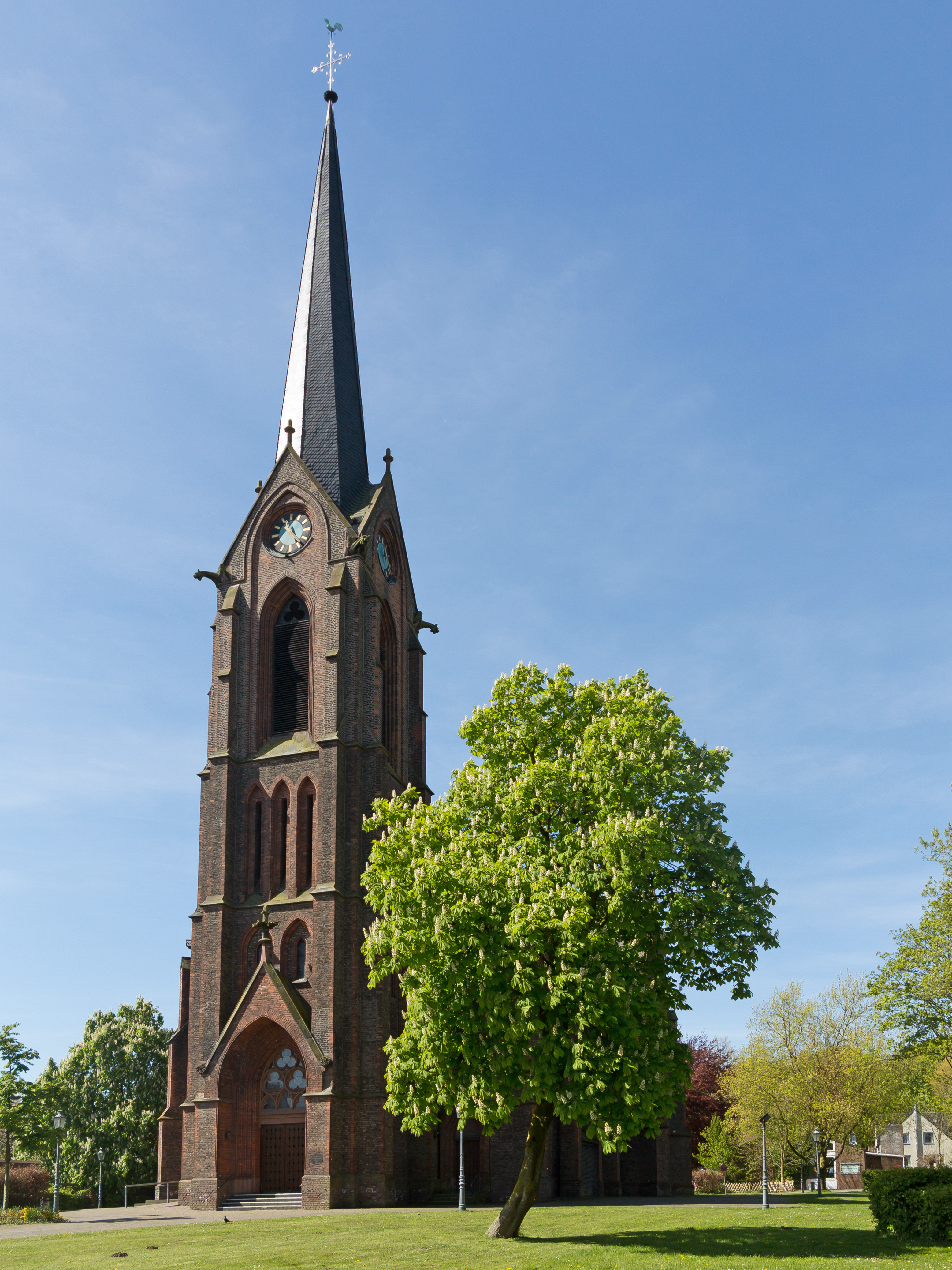 Rheurdt, church: Pfarrkirche Sankt NikolausThis is a photograph of an architectural monument., no. 38